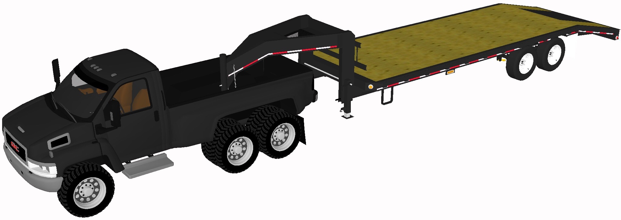 Dually pickup truck with tadem axles